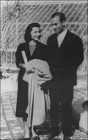 Ali Shariati and Pooran Shariat Razavi (his wife)